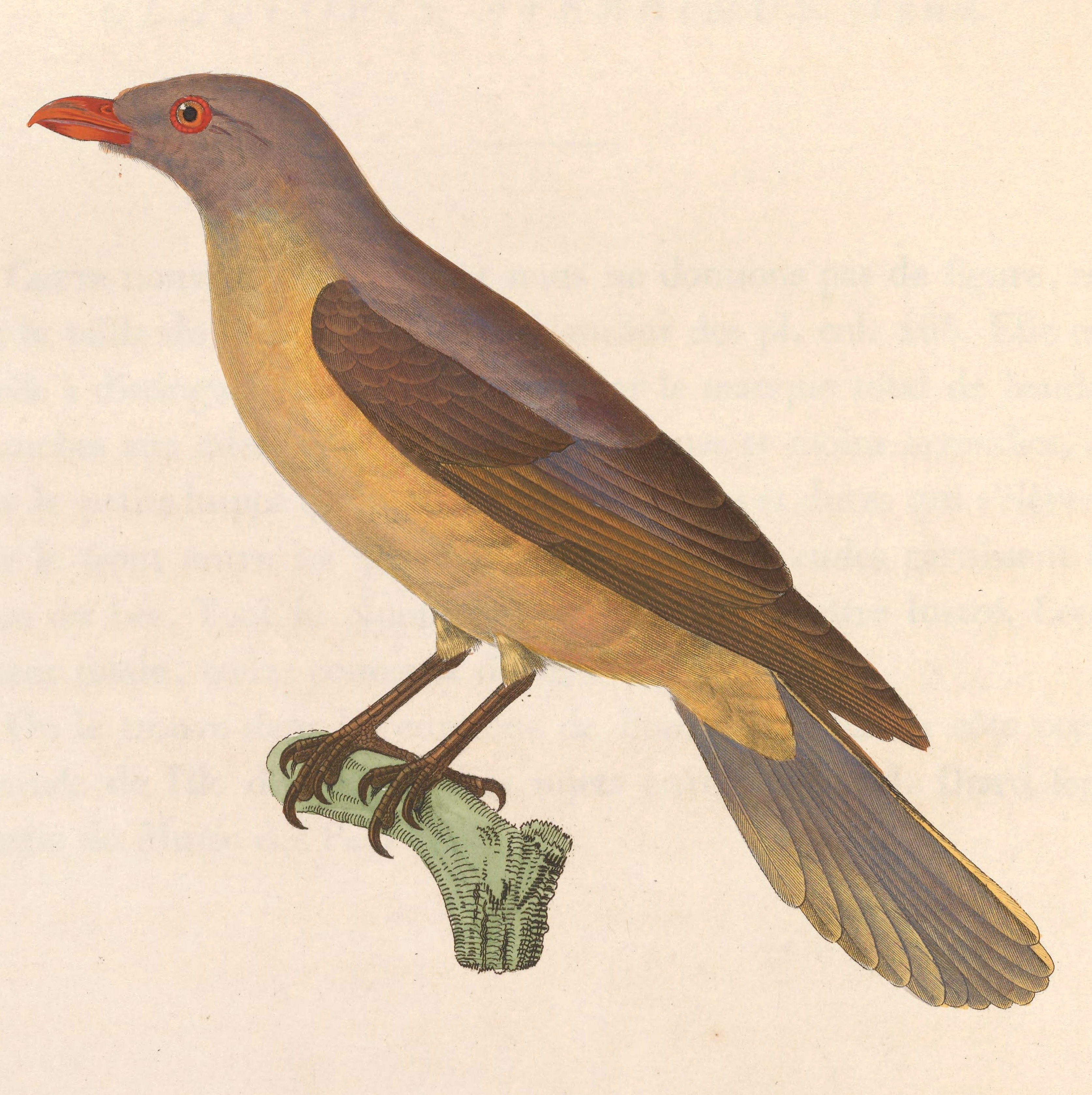 « Buphaga erythrorhyncha » = Buphagus erythrorynchus (Red-billed Oxpecker)